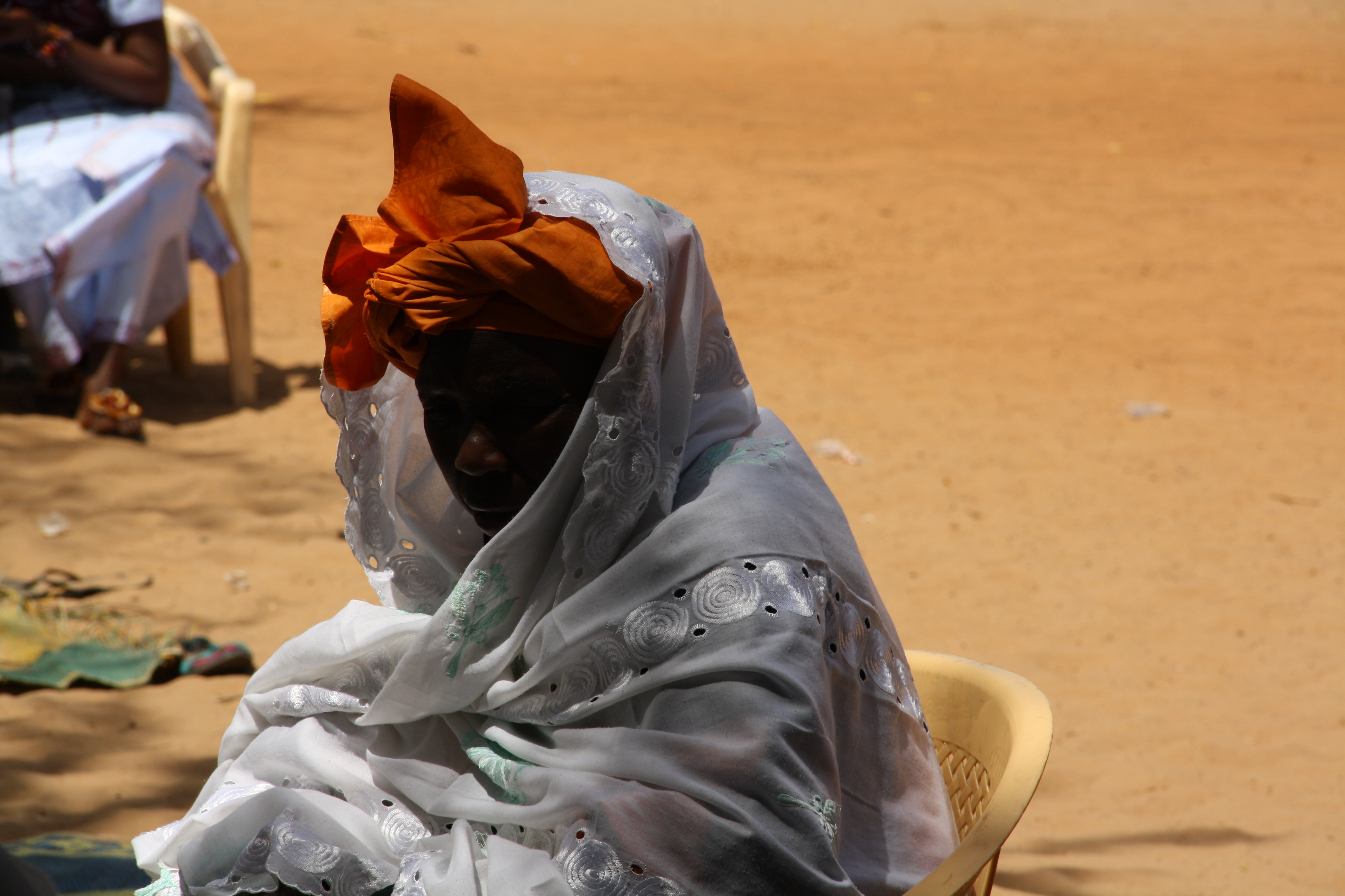 Married by her parents at the age of 14 to a man 41 years her senior, Oureye was also put through FGC as a child. Instead of being given the opportunity to learn how to read and write, Oureye was then taught how to practice FGC. For years she was the local FGC practitioner before Tostan’s programme made her aware of the terrible consequences of FGC. She is now a pioneer in the movement to end the practice and has travelled to over 100 villages across Senegal to spread awareness of the harm it causes. In March the UK committed to help end female genital cutting within a generation. Find out more